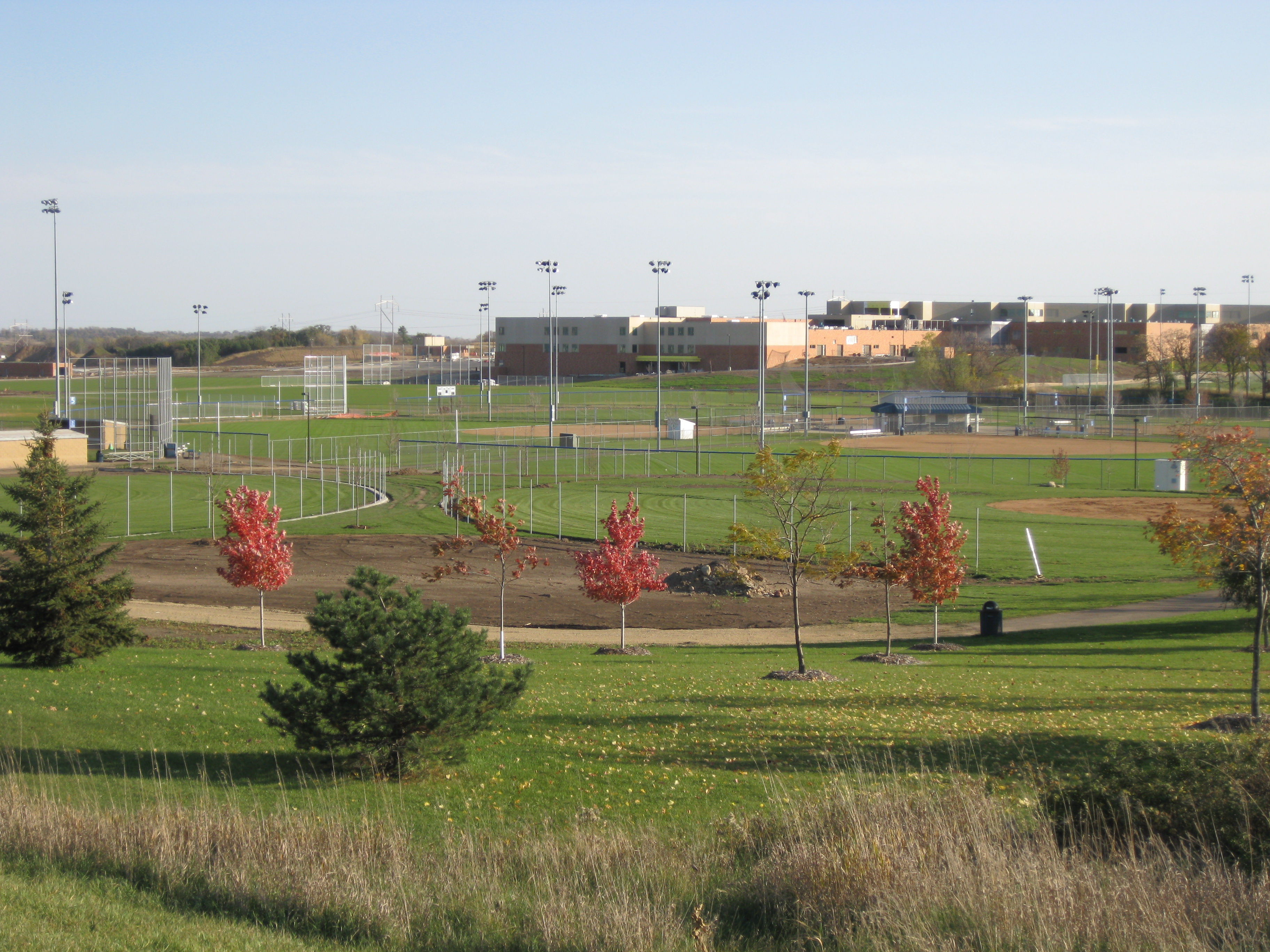 The new East Ridge High School and part of Bielenberg Sports Complex